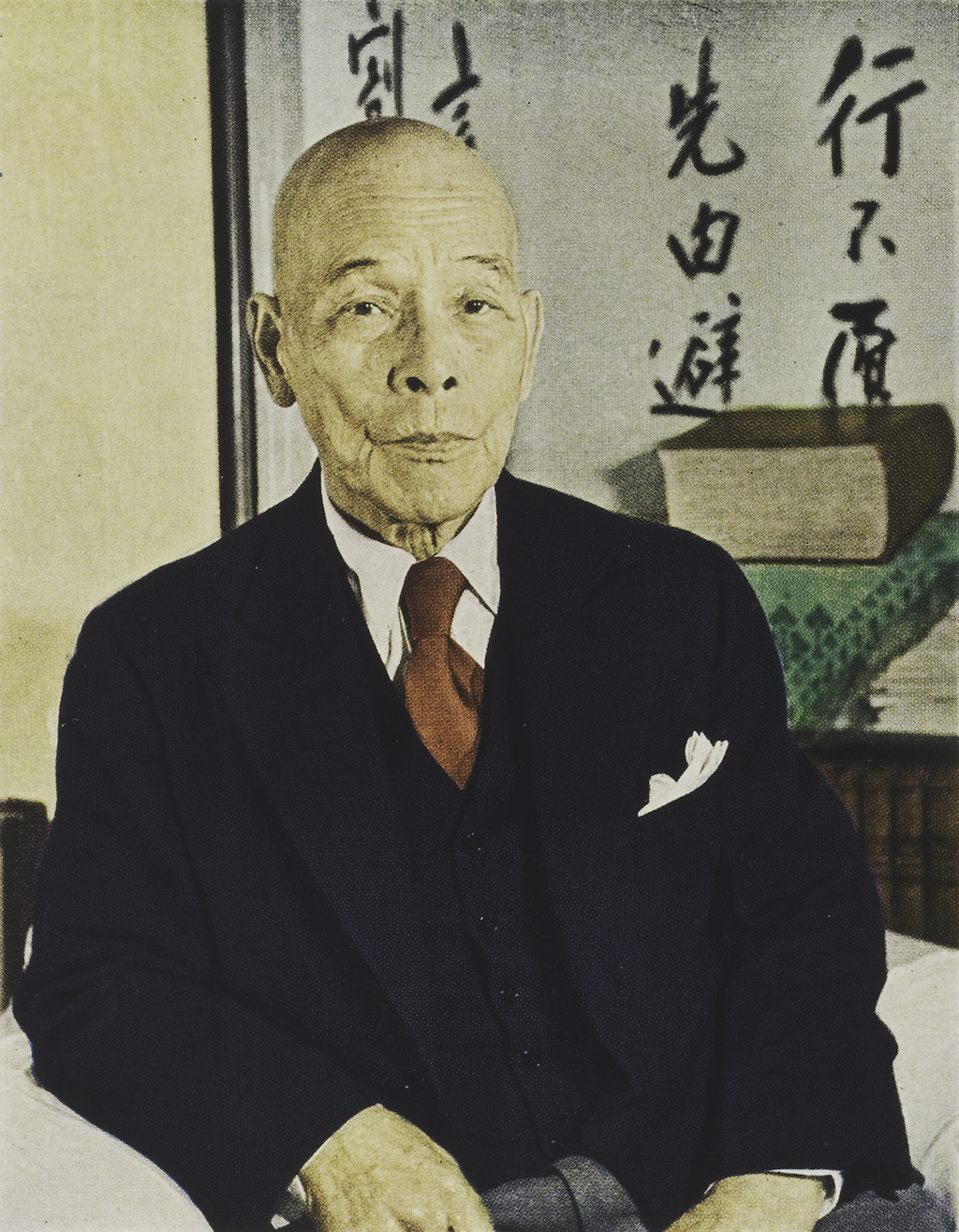 Portrait of Matsumoto Kenjiro (松本健次郎, 1870 – 1963)